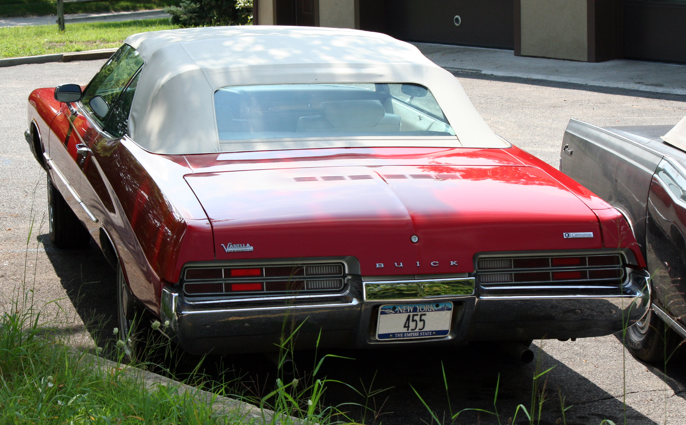 1971 Buick Centurion convertible